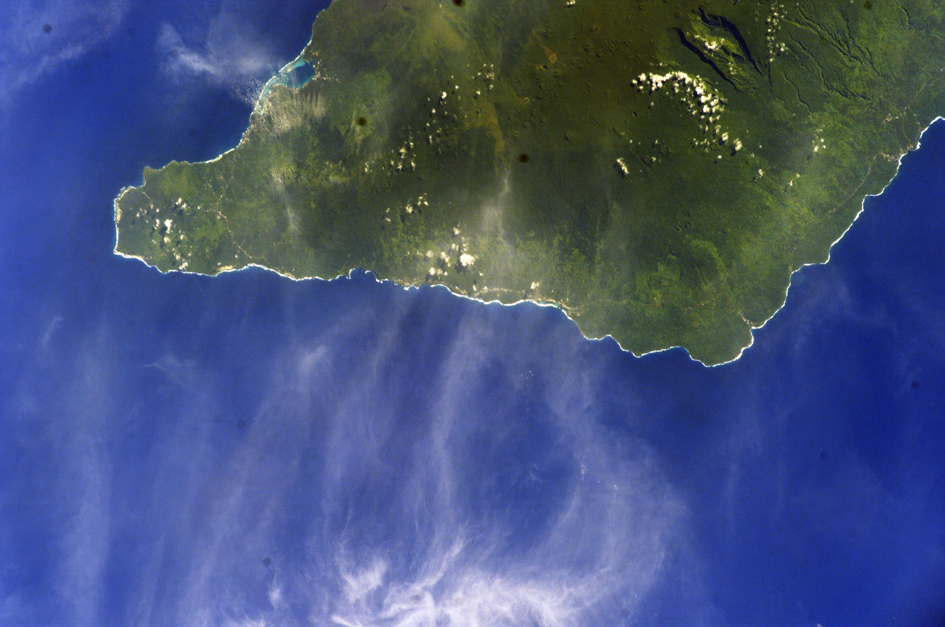 South and west side of Savai'i Island, including the districts of Vaisigano (west), Satupaitea & Palauli (south side), and Gagaifomauga (north central).